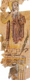 Goleniscev Papyrus, Pope Theophilus standing on the Serapeion